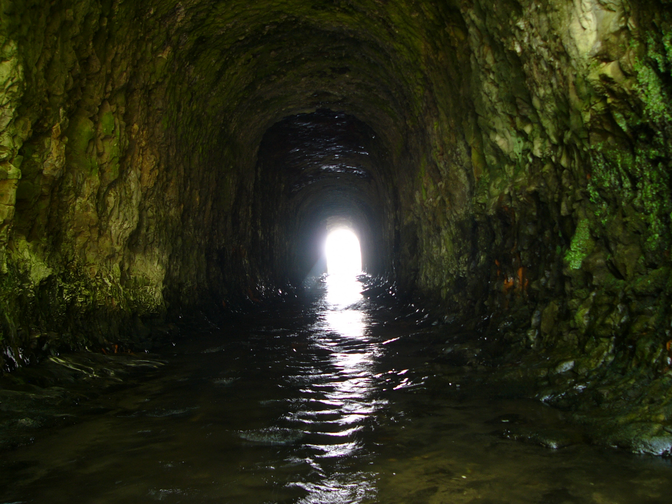 Ocean Shore Railroad, Davenport, San Vincente Creek tunnel: exit